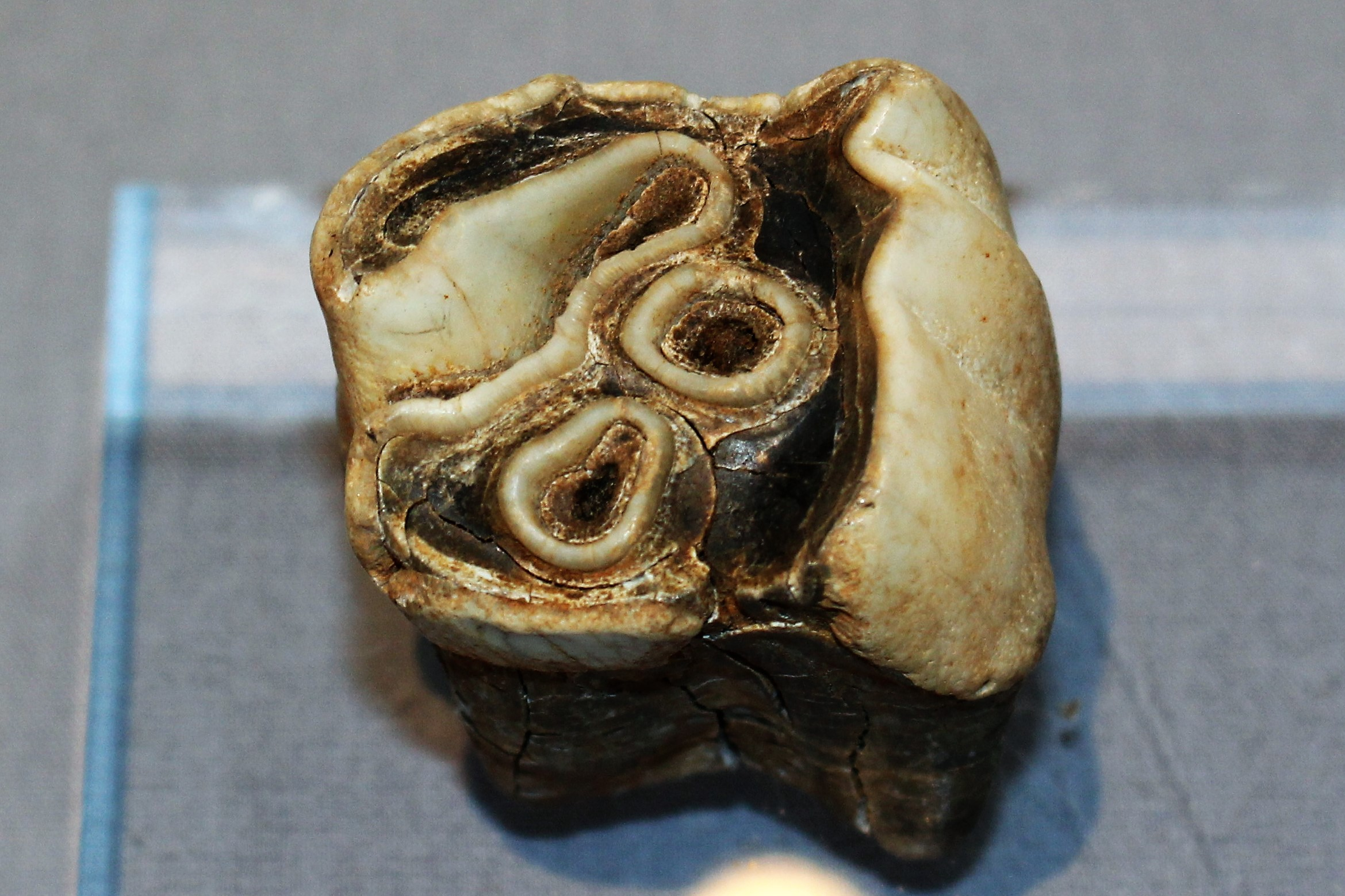 Fossilized woolly rhinoceros (Coelodonta antiquitatis) tooth in the Rotunda Museum, Scarborough, England.